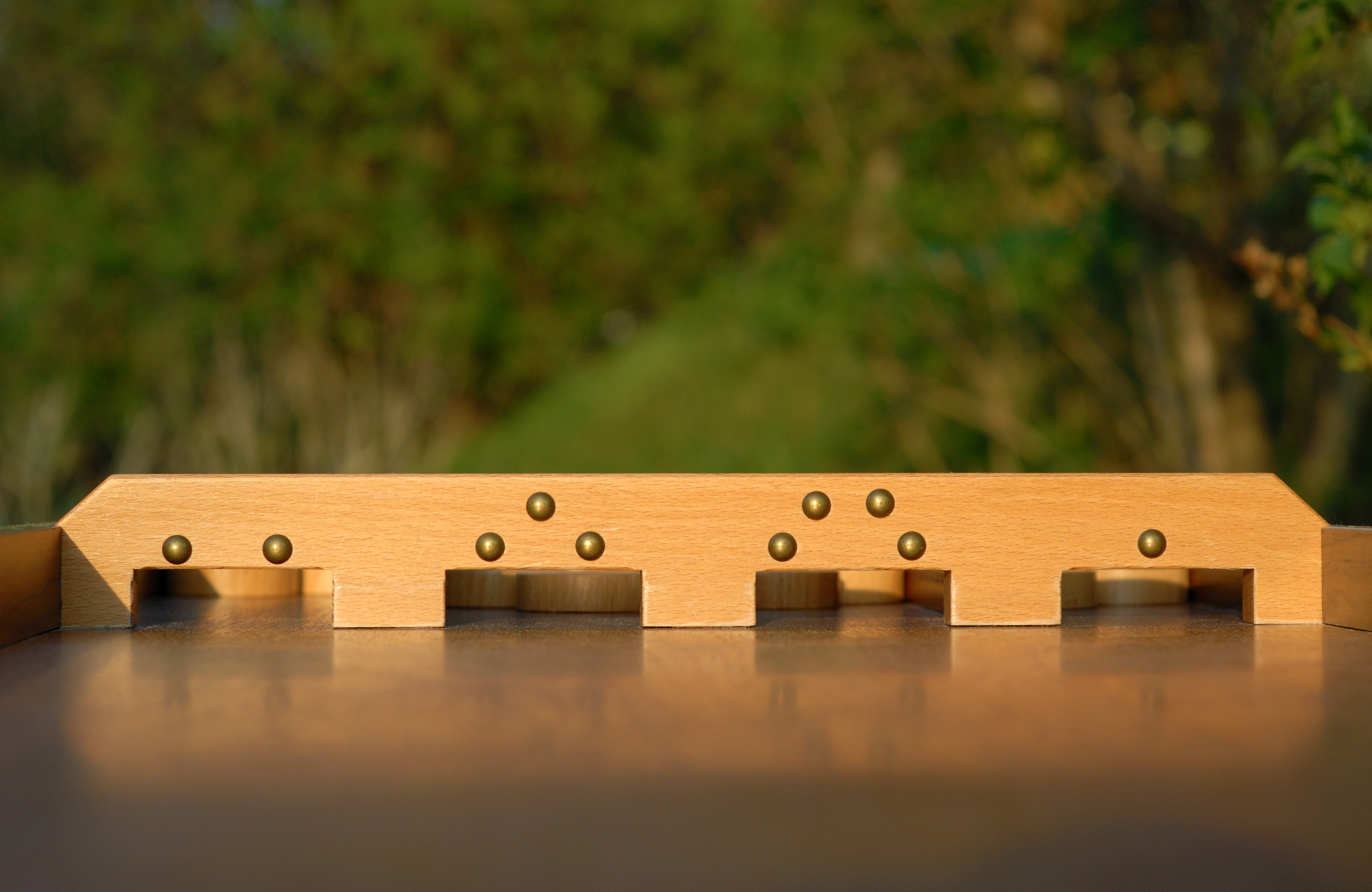 doors of a table shuffleboard